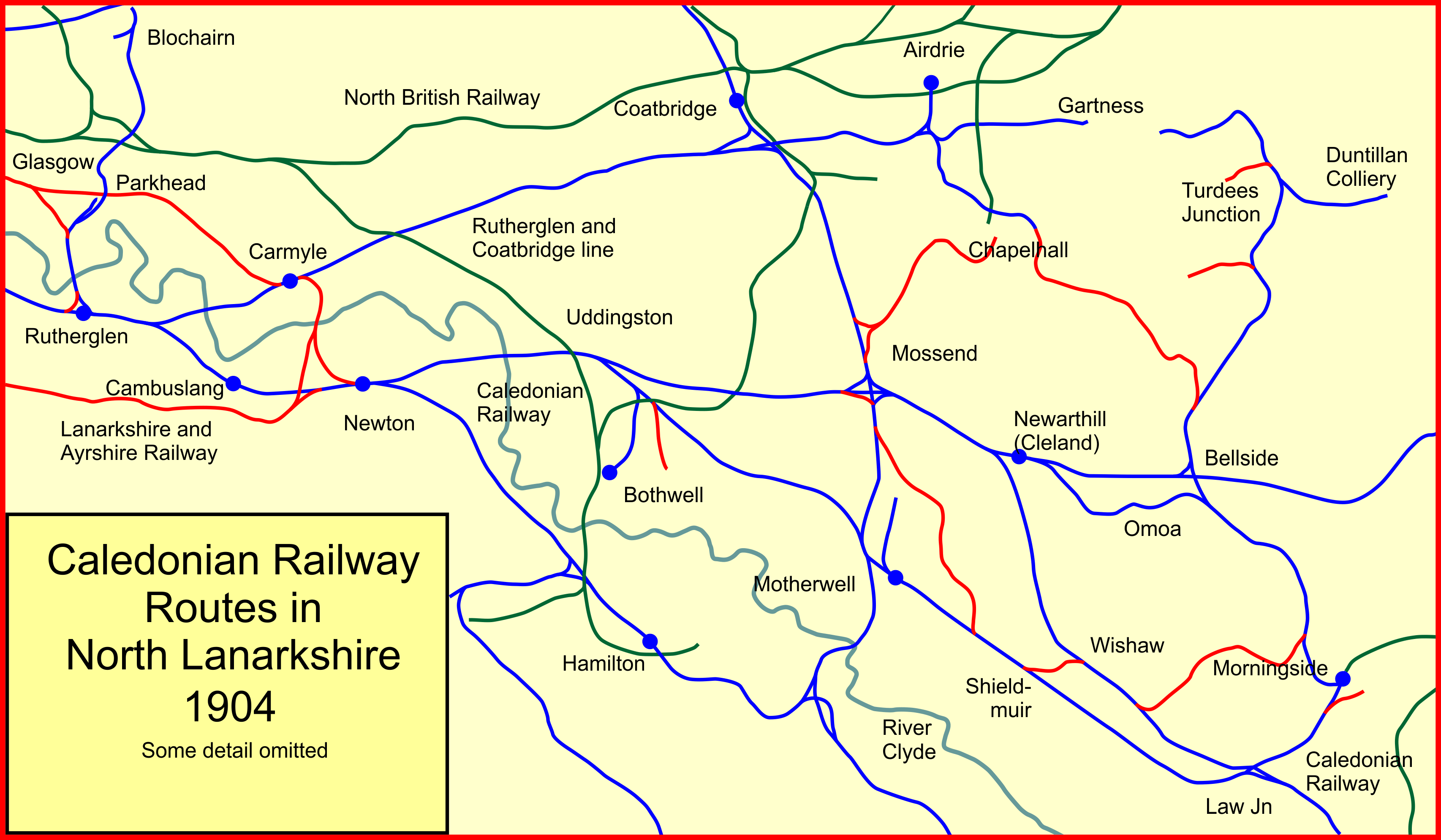 Caledonian Railway lines in North Lanarkshire, Scotland, in 1904